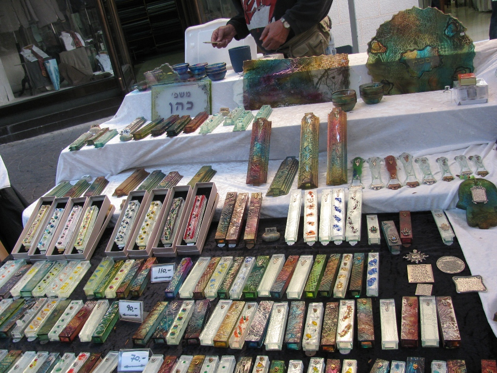 Mezuzah designed